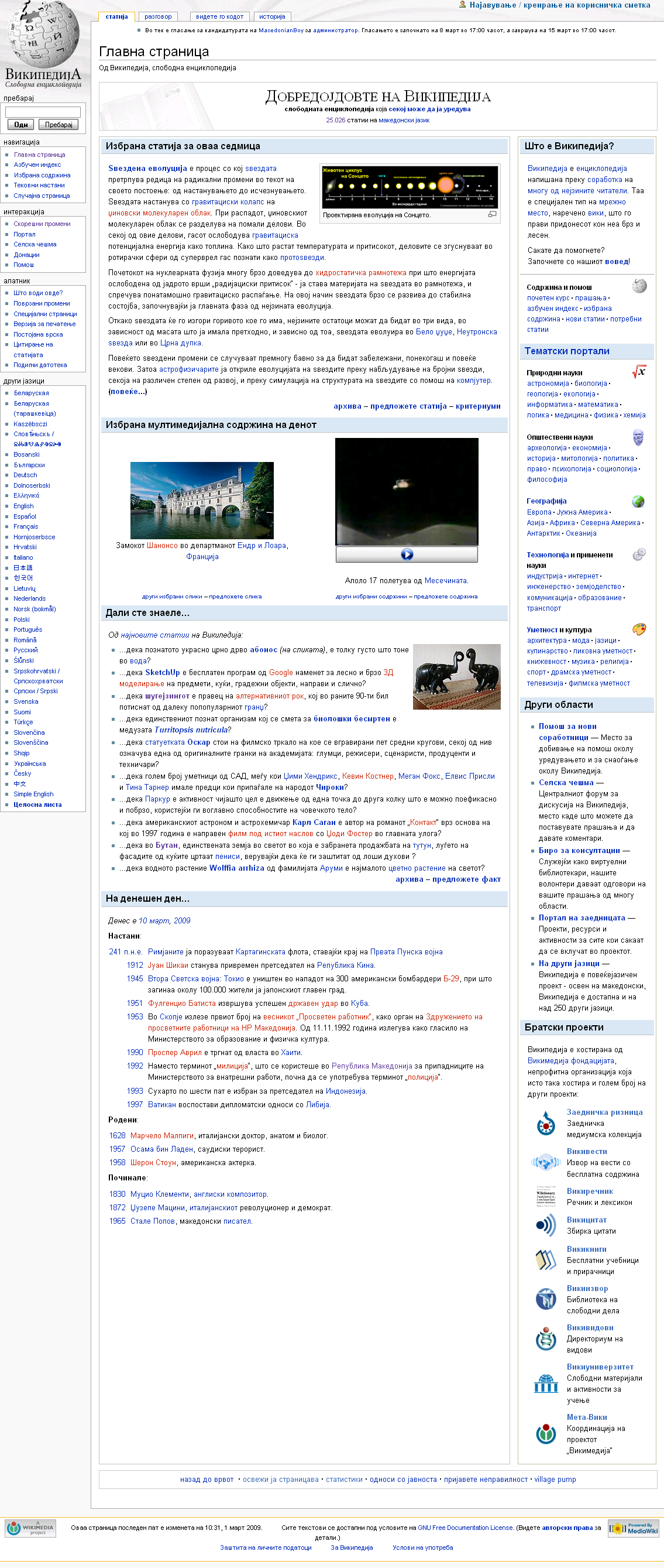 Screenshot of the Macedonian Wikipedia Mainpage from March 10 2009.